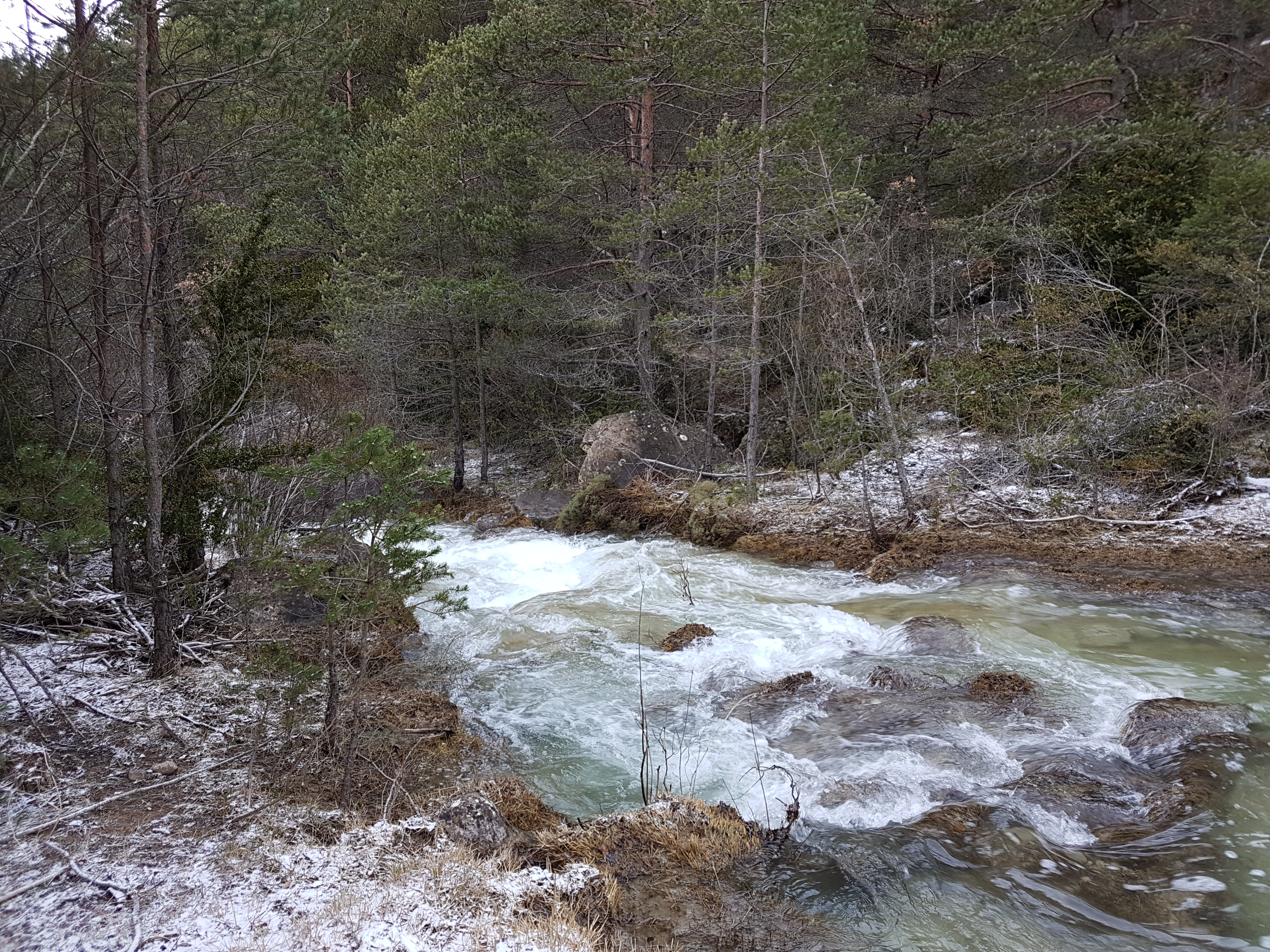 The barranco de Gillué (Sabiñanigo, province of Huesca, Aragon, Spain) en February 2017.